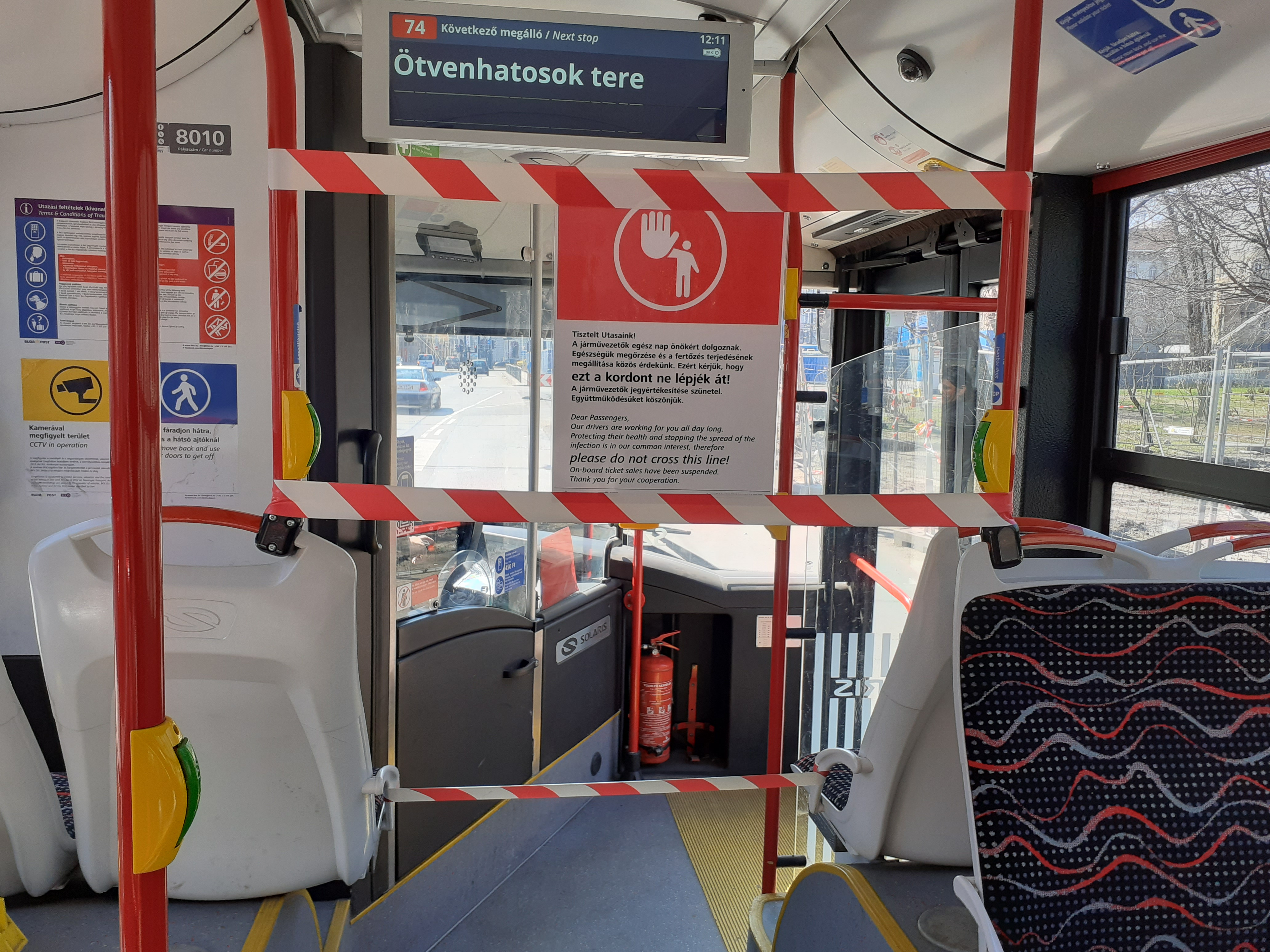 Closed section near the driver's cab from the interior in trolleybus 8010 on Line 74 in Budapest, at "Ötvenhatosok tere" trolleybus station. The section of the trolleybus near the driver's cab is closed to protect the driver from the threat of coronavirus infection.